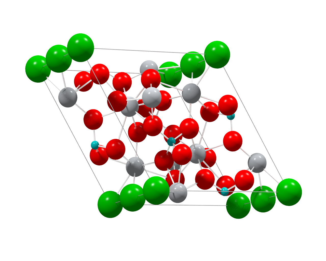 Structure of Vanadinite, ref: Trotter J, Barnes W H (1958) The structure of vanadinite, The Canadian Mineralogist 6, 161-173